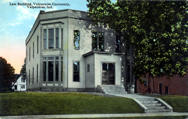 Northern Indiana Law School (circa 1910), Valparaiso University, Valparaiso, Porter County, Indiana.